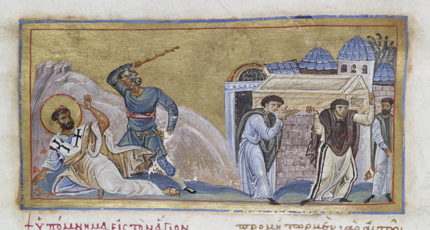 The manuscript is known as a menologion, from the Greek for "month". It was written and illuminated in the imperial scriptorium in Constantinople, and is one of the few editions to be so richly illustrated. It is a collection of the lives of the saints honored in January and is arranged by the days of the liturgical year on which each saint is venerated.